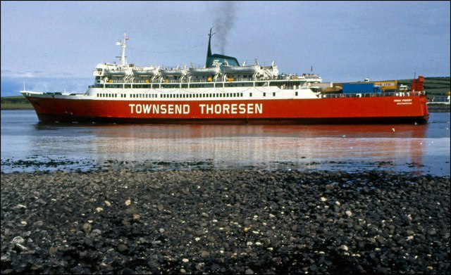 The "Ionic Ferry" at Larne The “Ionic Ferry” departing Larne with the mid-afternoon sailing to Cairnryan. Townsend Thoresen was later acquired by P&O.